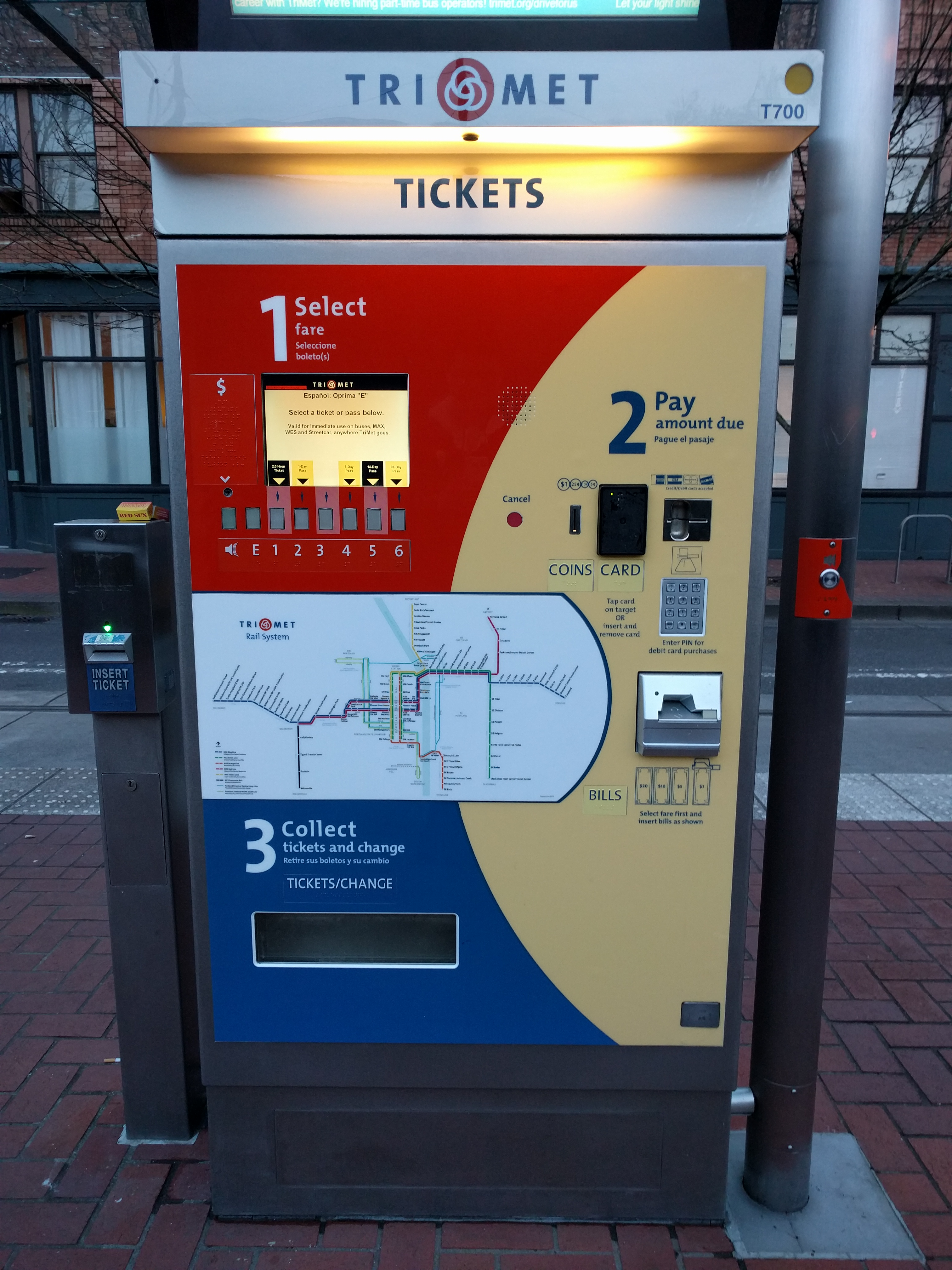 The ticket vending machine of the TriMet MAX light rail, photographed at the Union Station/NW 5th & Glisan St station.